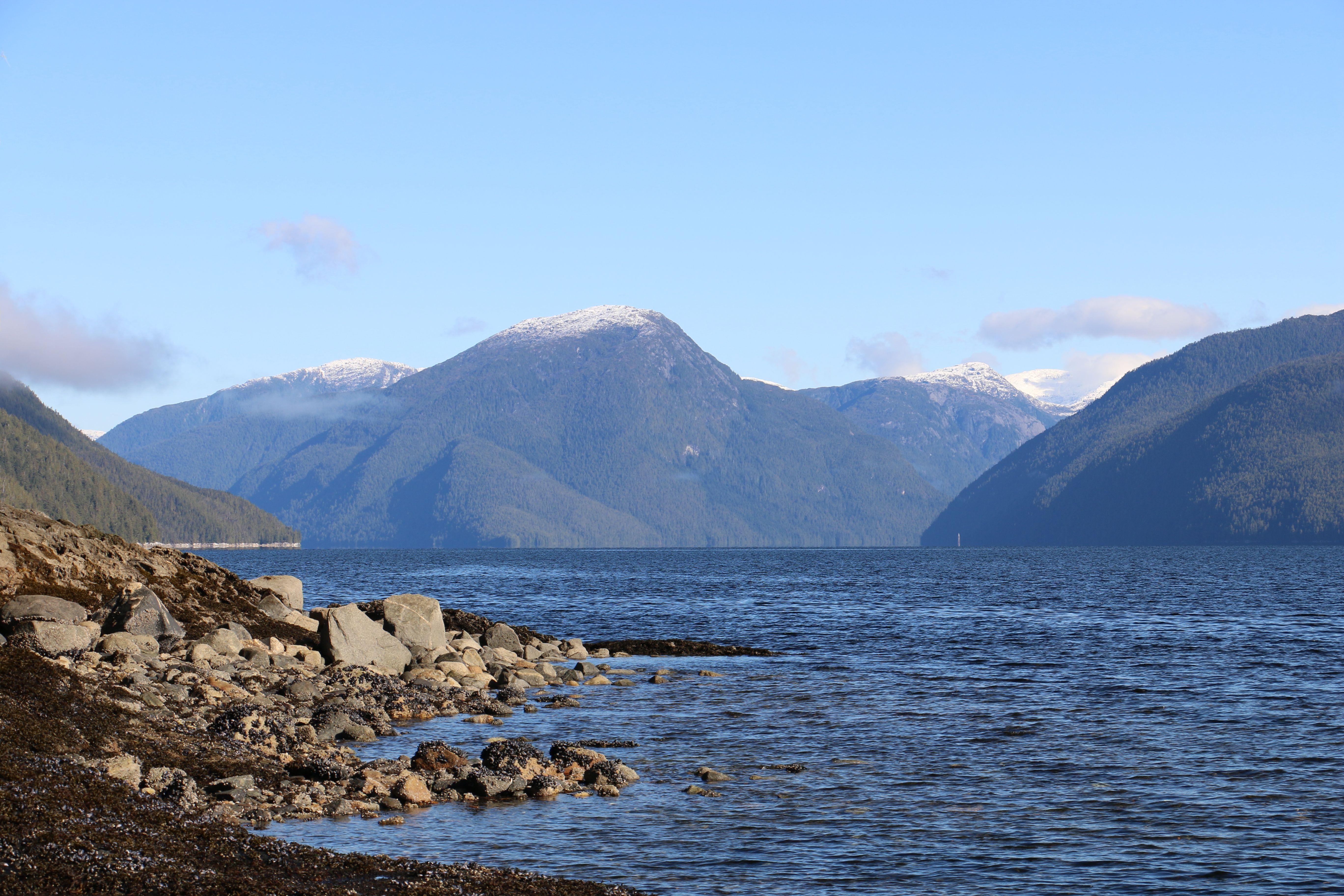 Mathieson Channel, east of Klemtu on British Columbia's Central Coast.